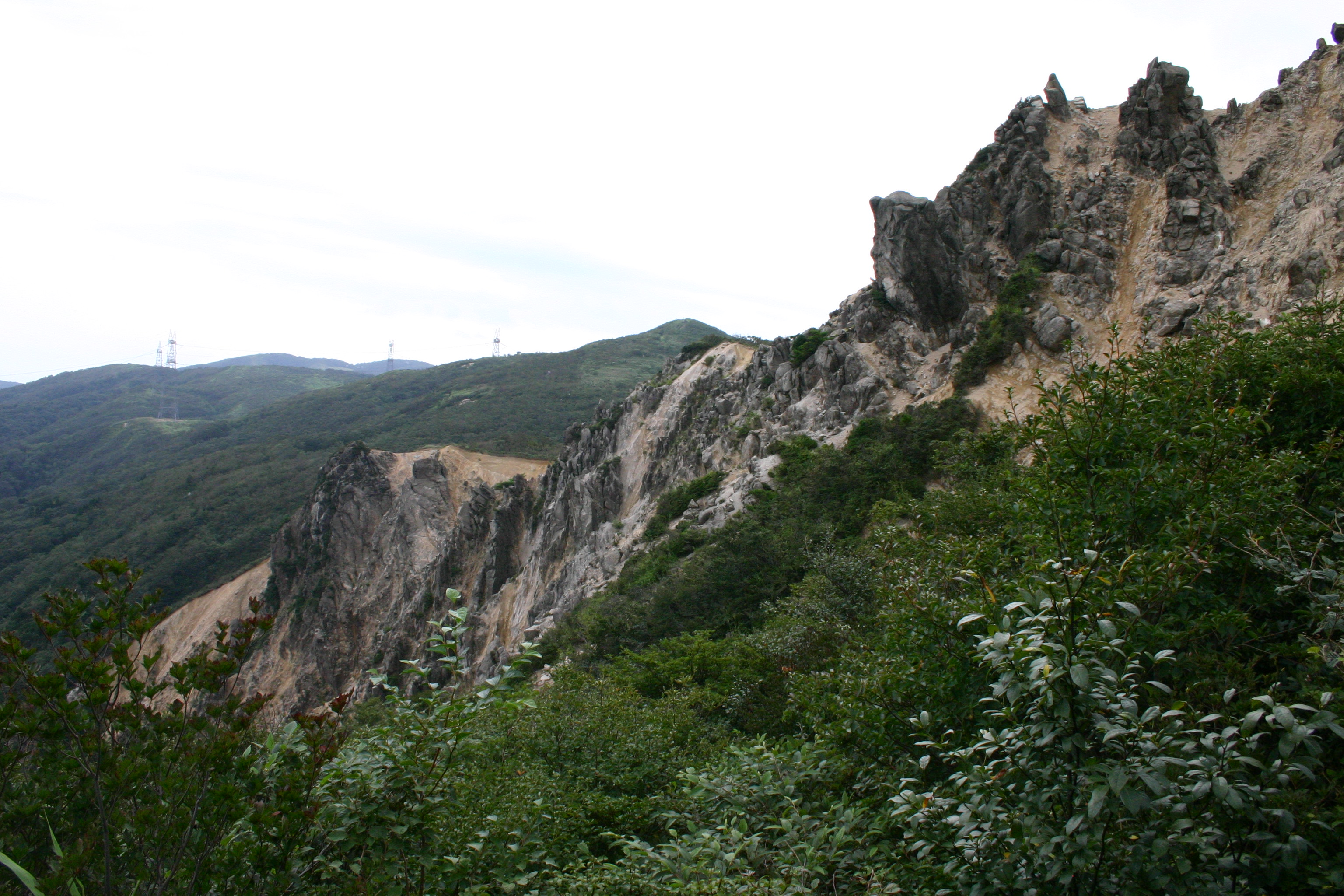 Big cliff in front is called "Meiou no hage". Mt. Akasaka is a distant peak.